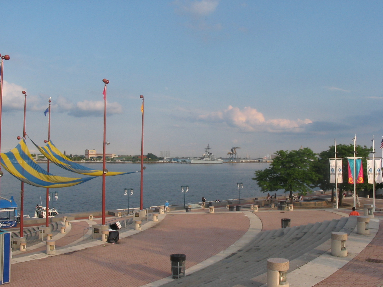 Image taken by me for Wikipedia